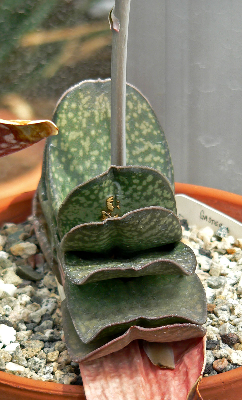 Gasteria disticha at the University of California Botanical Garden, Berkeley, California